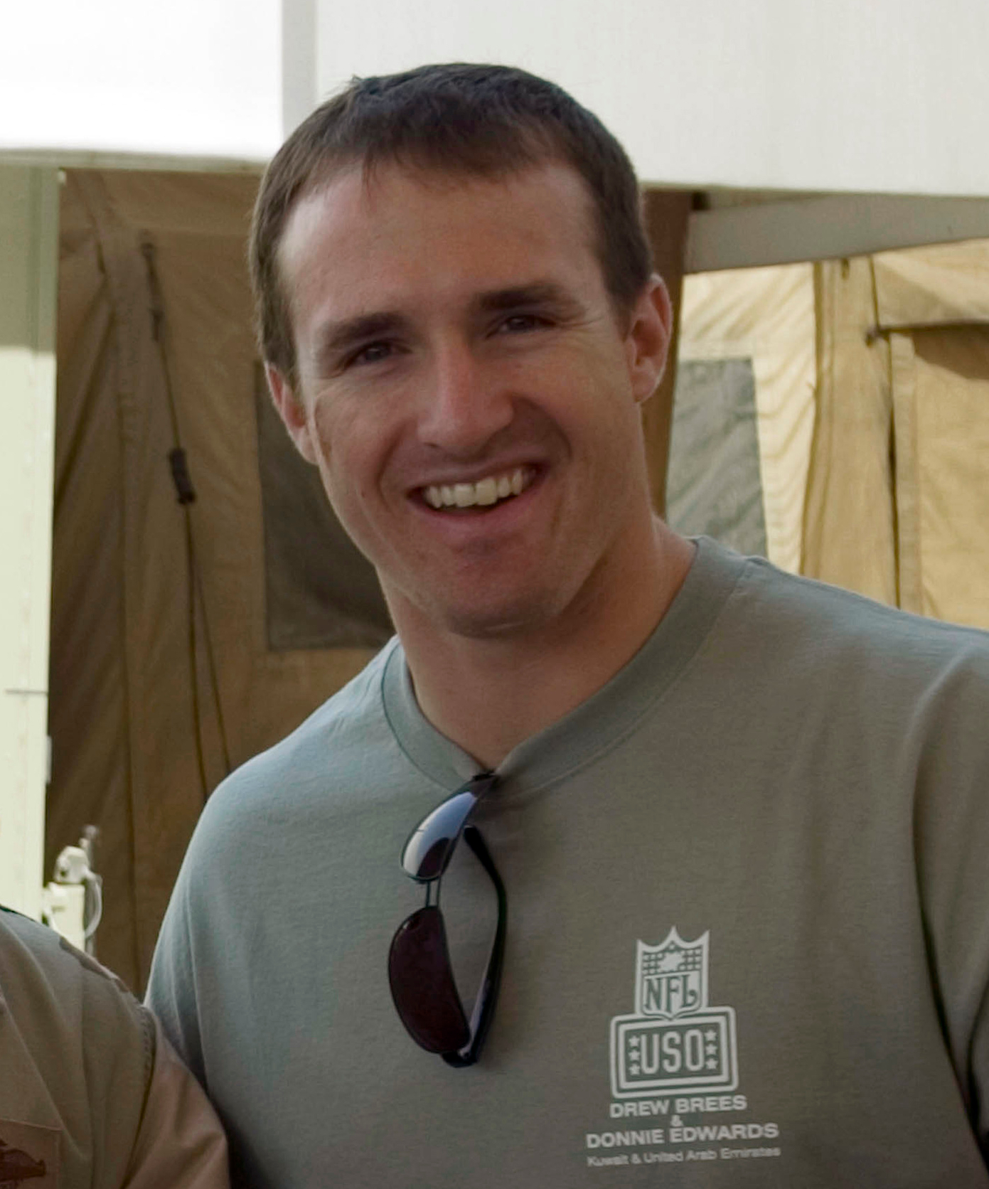 Camp Arifjan, KW - New Orleans Saints quarterback Drew Brees poses for a photo with Petty Officer 3rd Class Corey Adam at the Expeditionary Medical Force - Kuwait hospital on camp Thursday. The NFL star is touring the Middle East as a part of the Active NFL Players Tour sponsored by the USO.